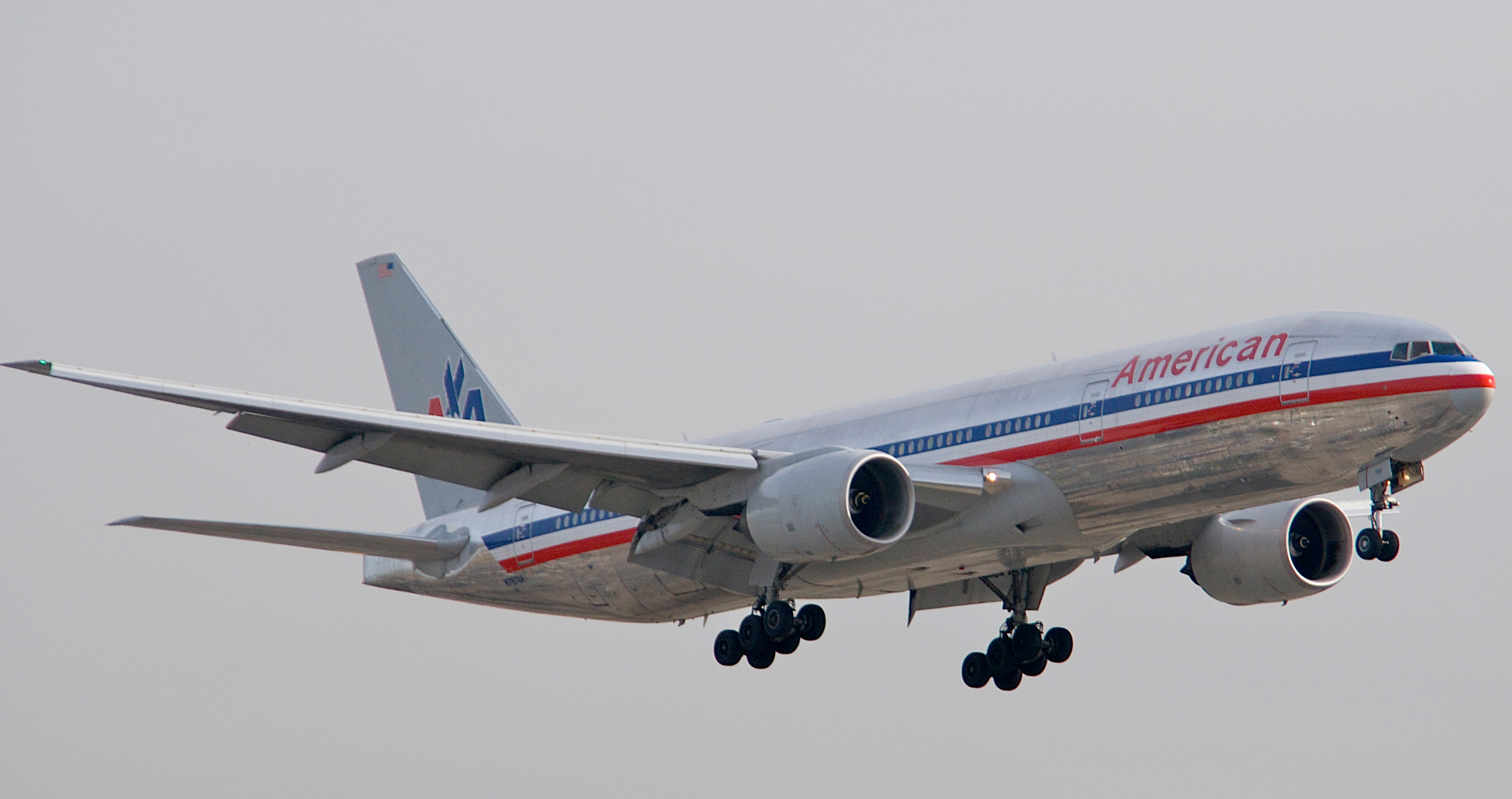 American Airlines Boeing 777-223ER landing at Los Angeles International Airport (LAX) in January 2010.